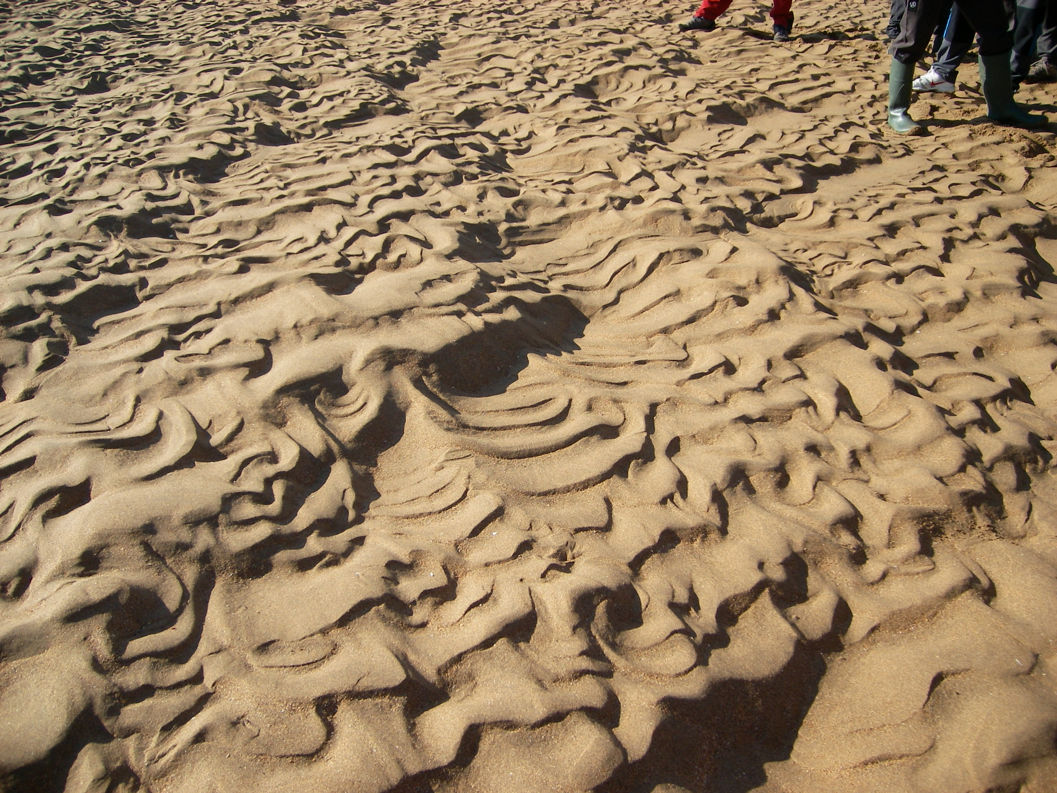 Linguoid ripples on asymmetrical dunes. Current bedforms located in Urdaibai estuary (Basque Country).